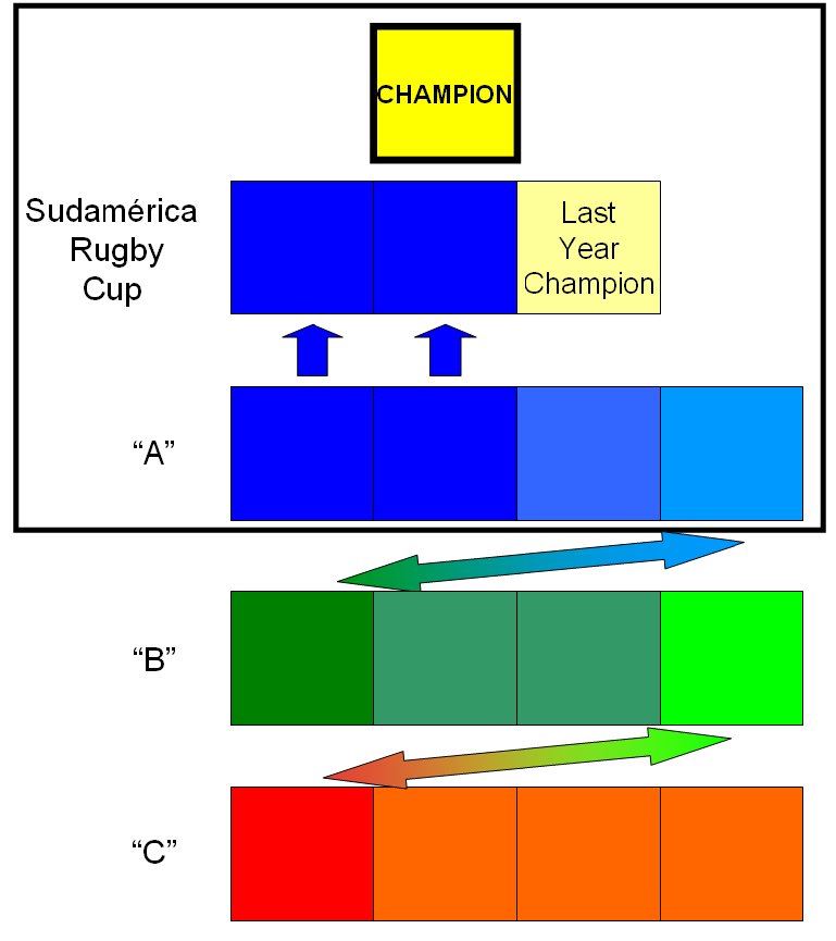 South America Rugby Union Championship since 2014. Four levels: South America Rugby Cup, Mayor "A", Mayor "B" & Mayor "C". The two first teams of the level "A", play with the last year champion for the top title, the South America Rugby Cup. The last team of levels Mayor A & Mayor B, play one game with the first teams of levels Mayor B & Mayor C, to upgrade.